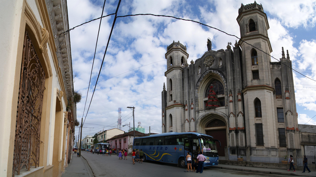 Panoramic view of Santa Clara cathedral in Cuba